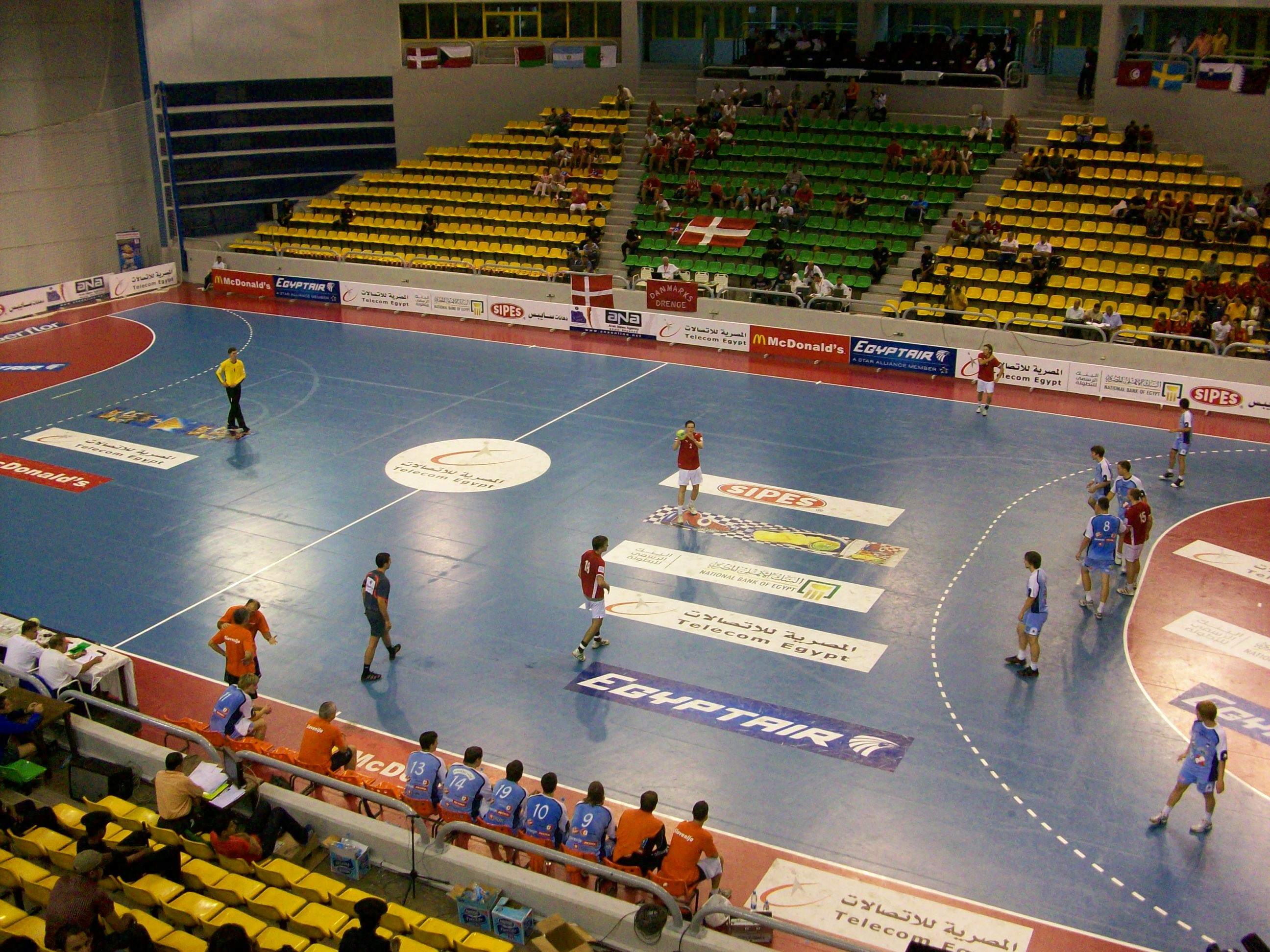 Action from 17th Men's Junior World Handball Championships in Cairo. Slovenia vs Denmark.